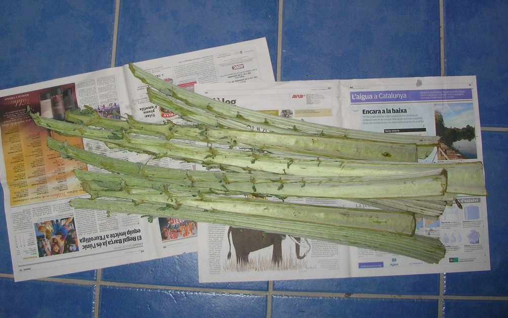 cardoon before cutting and peeling